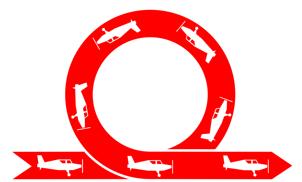 Diagram of a plane flying a loop.